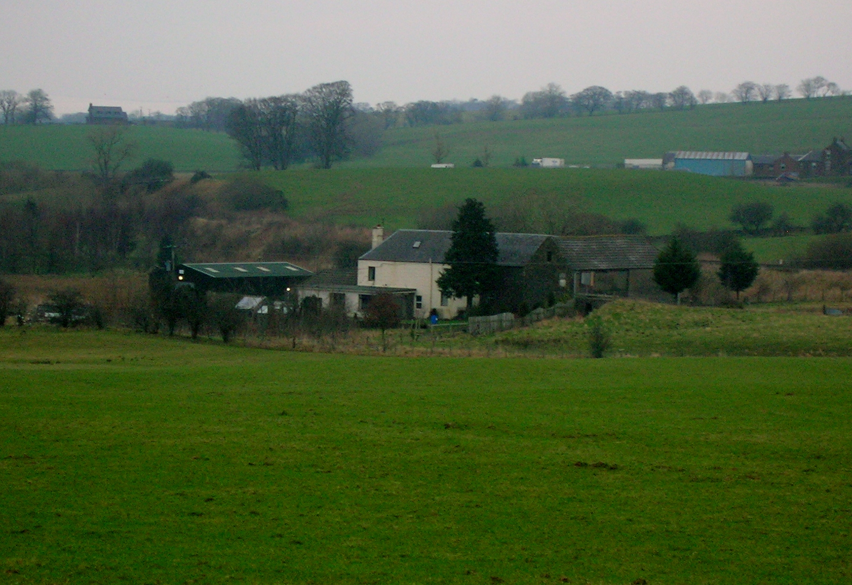 Old Borland Mill, New Cumnock, East Ayrshire, Scotland.